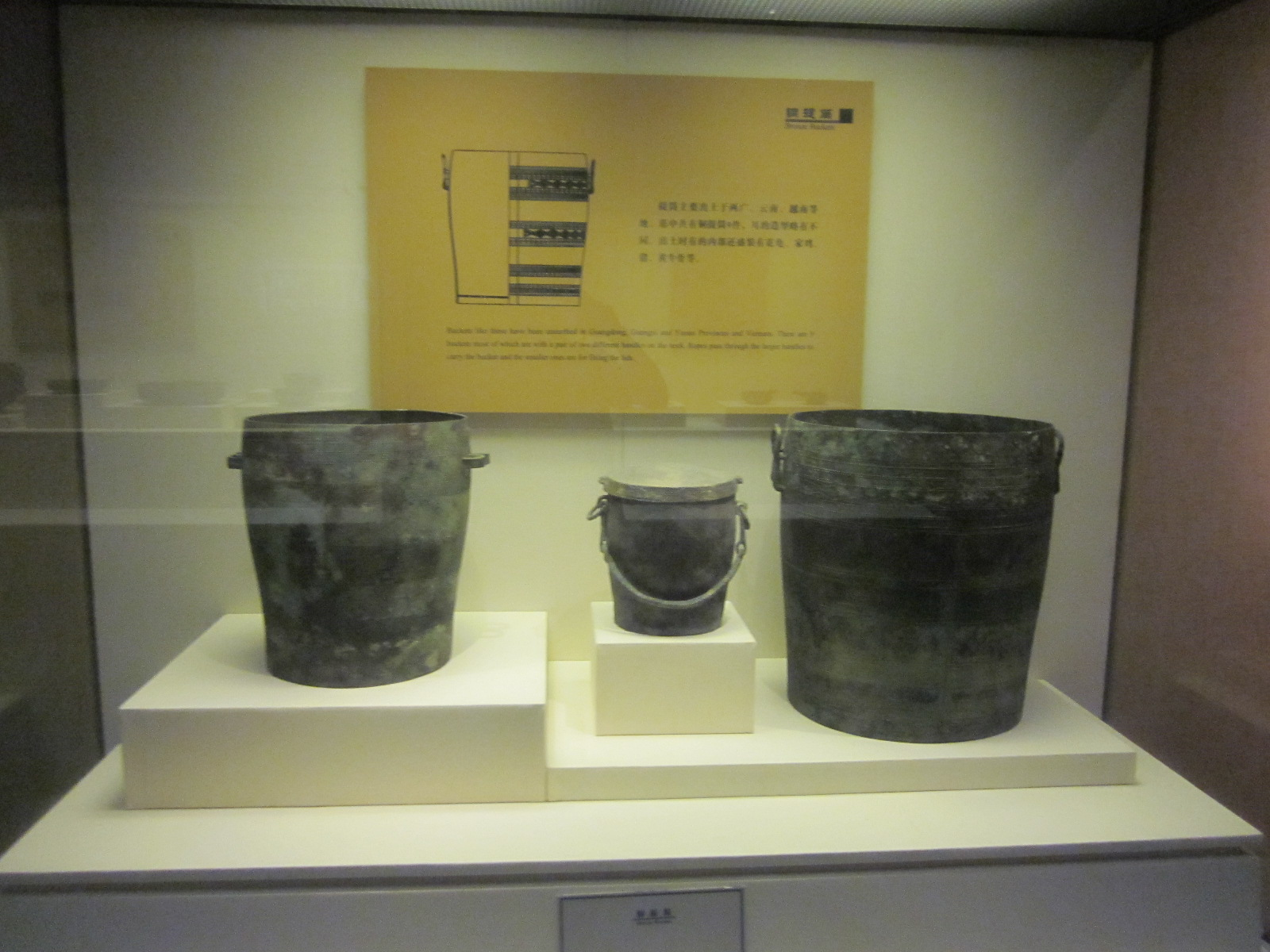 Museum of the Tomb of the King of Southern Yue in Western Han Dynasty